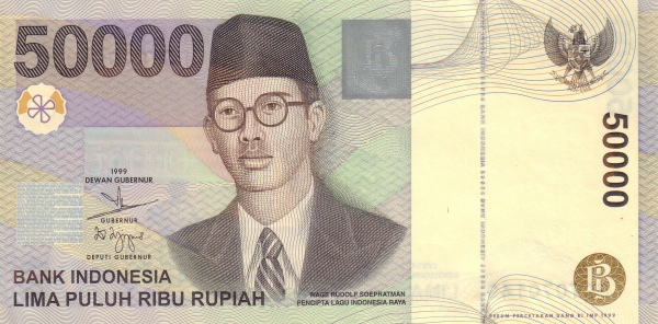 Indonesian currency issued 1998-2005.